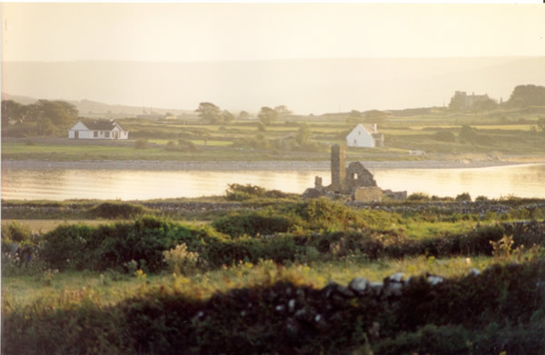 Image of old ruin on island of Aughinish. Photo by Lara O'Connell, 2004.